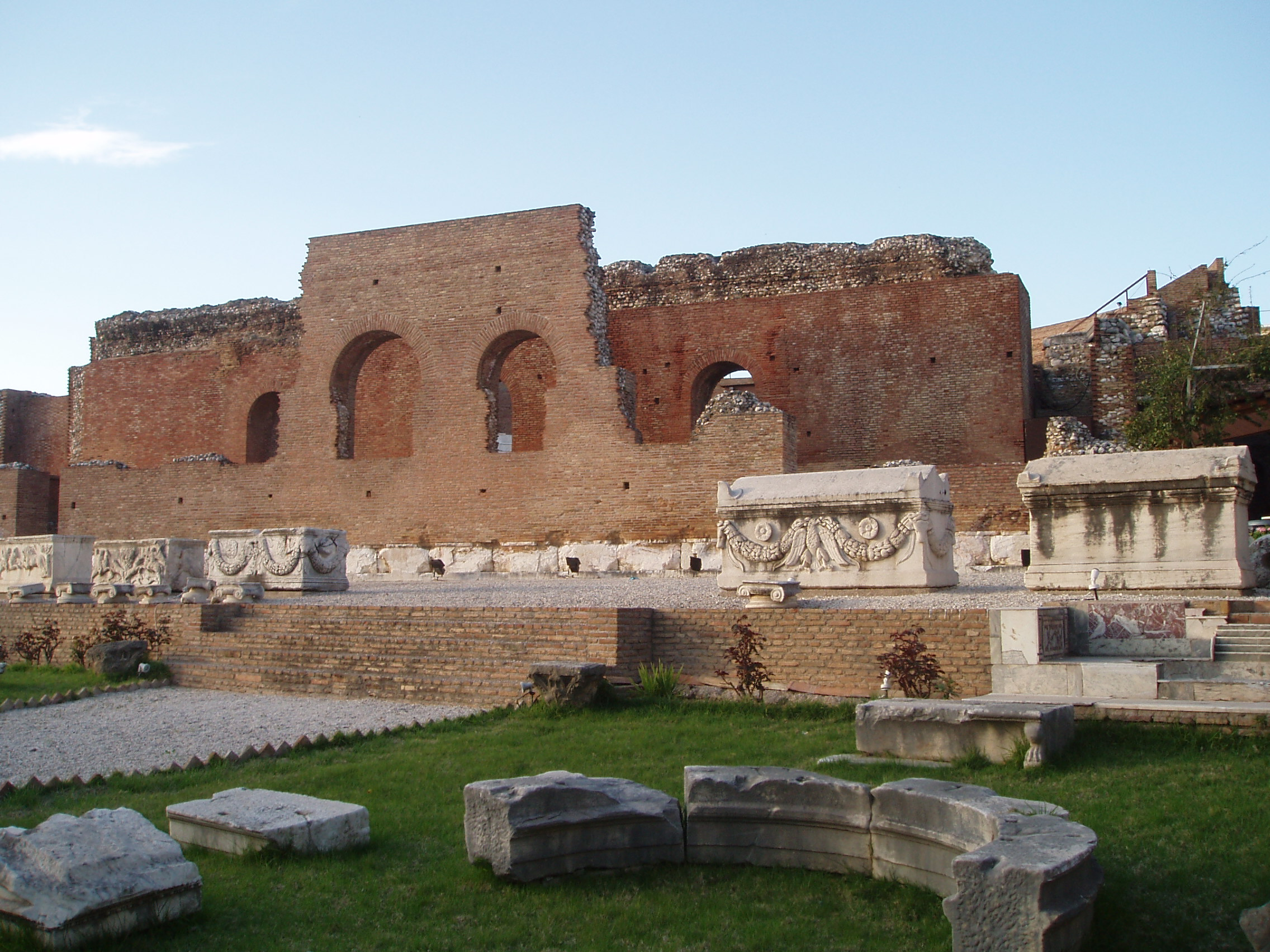 The Roman Odeum of Patras.